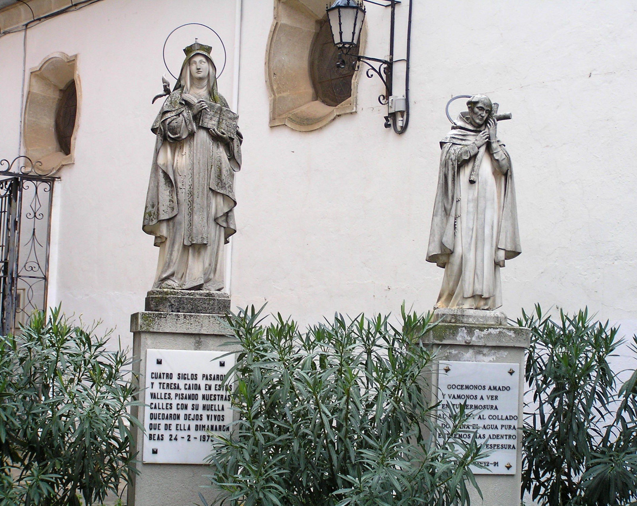 S. Juan de la Cruz y Santa Teresa en la Plaza de las Carmelitas